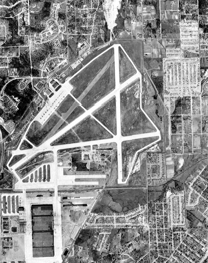 Birmingham Airport, Alabama, USA